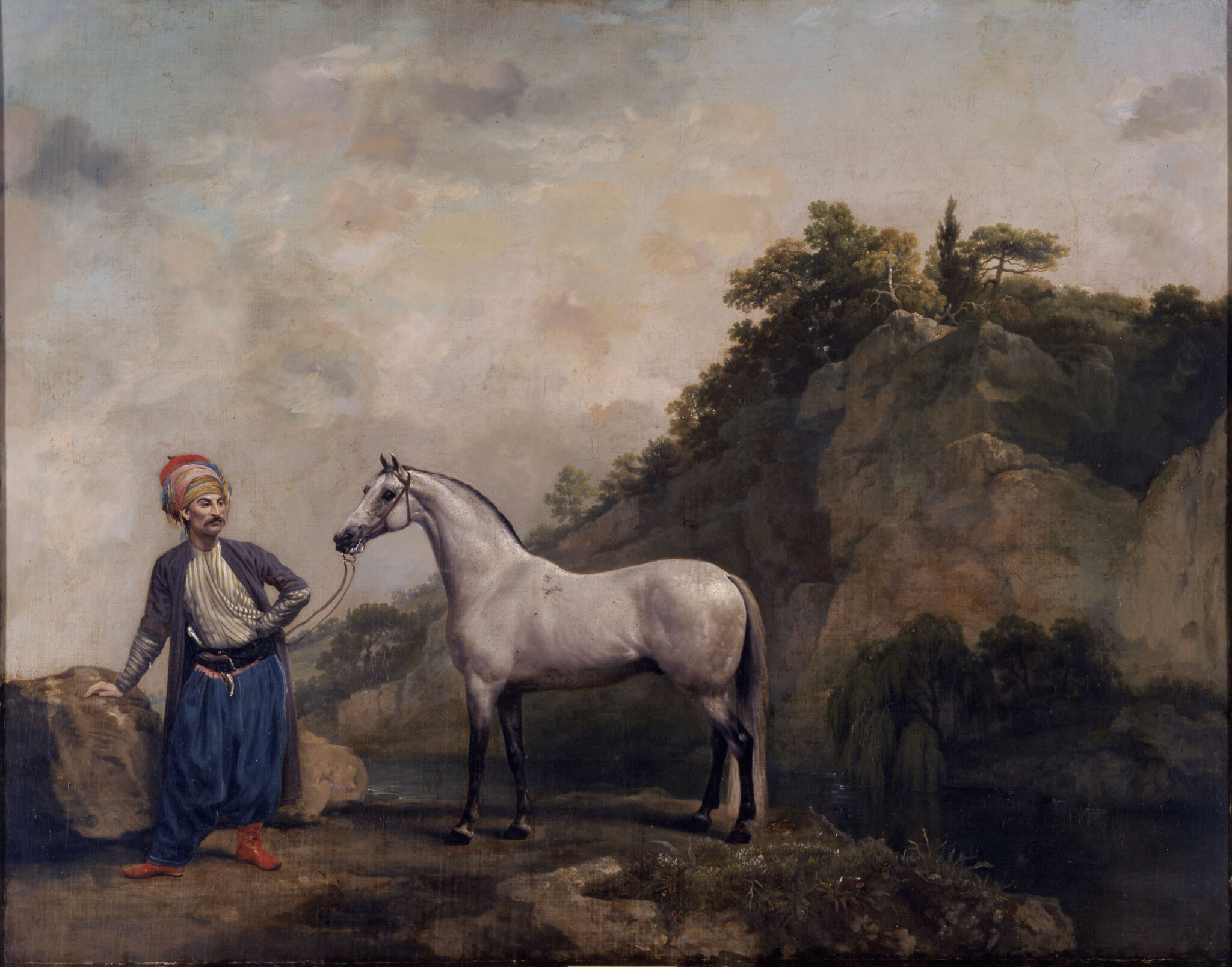 Painting of early Thoroughbred sire the Alcock Arabian. c1720. Painter unknown but dead for 200+ years.